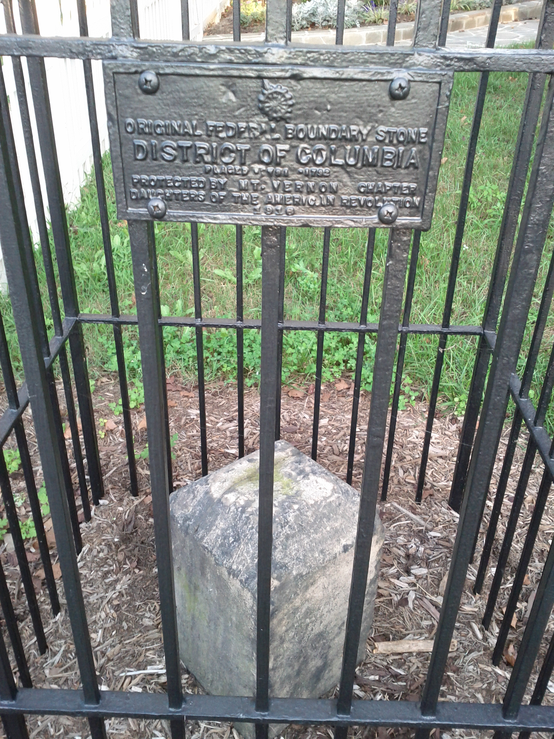 Southwest No. 1 Boundary Marker of the Original District of Columbia